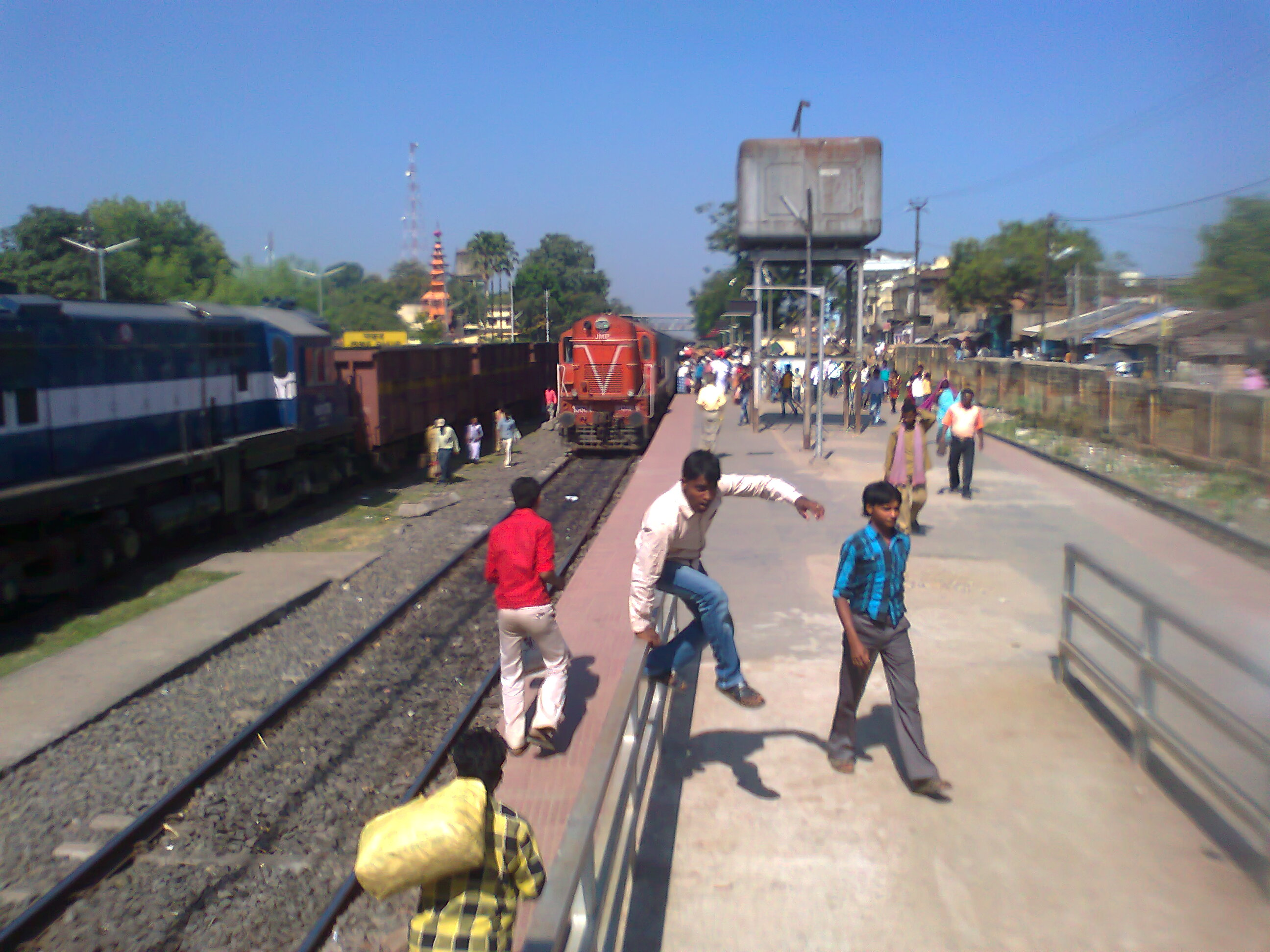 From Overbridge..